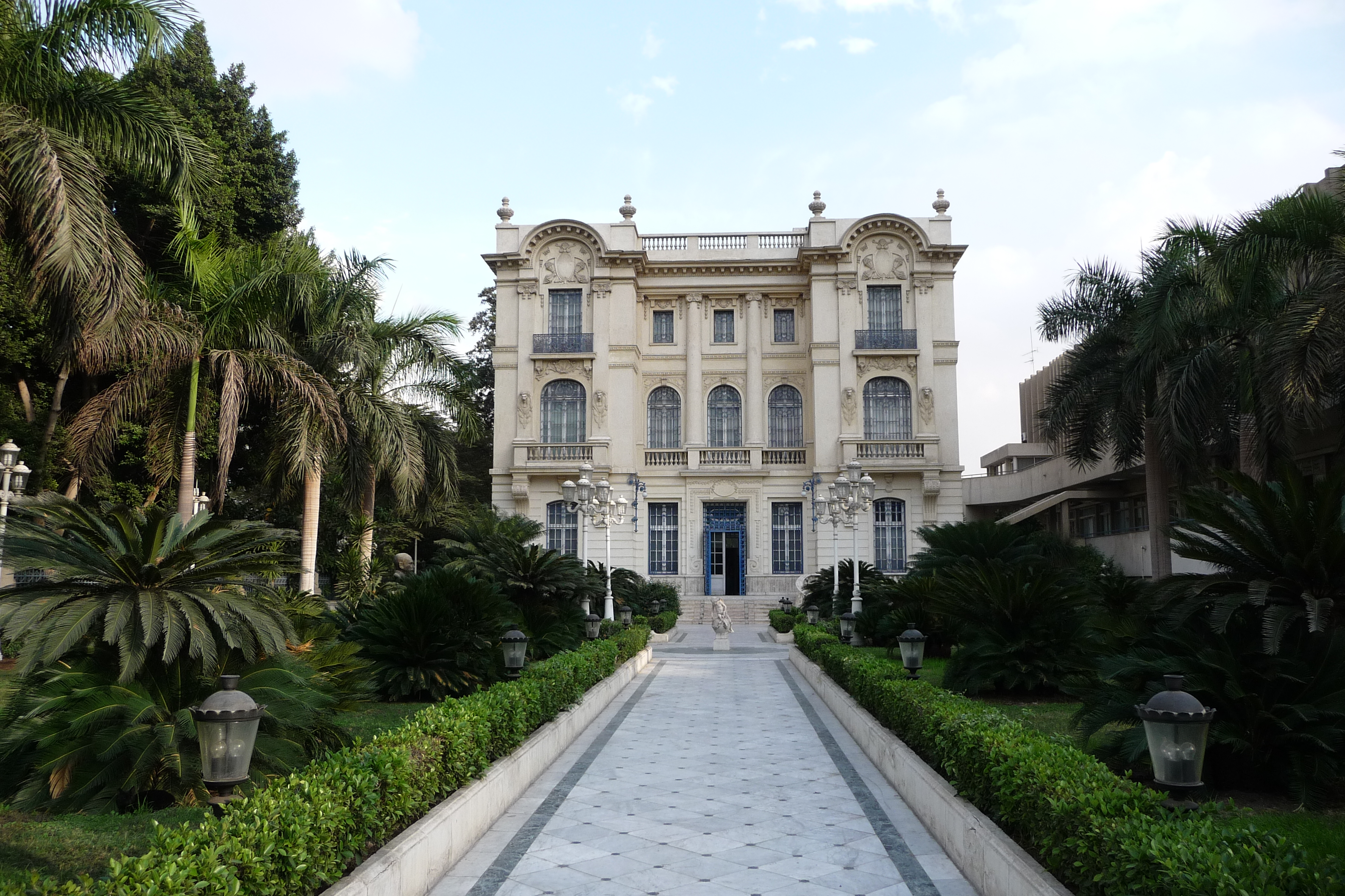 Entrance Mahmoud-Khalil-Museum